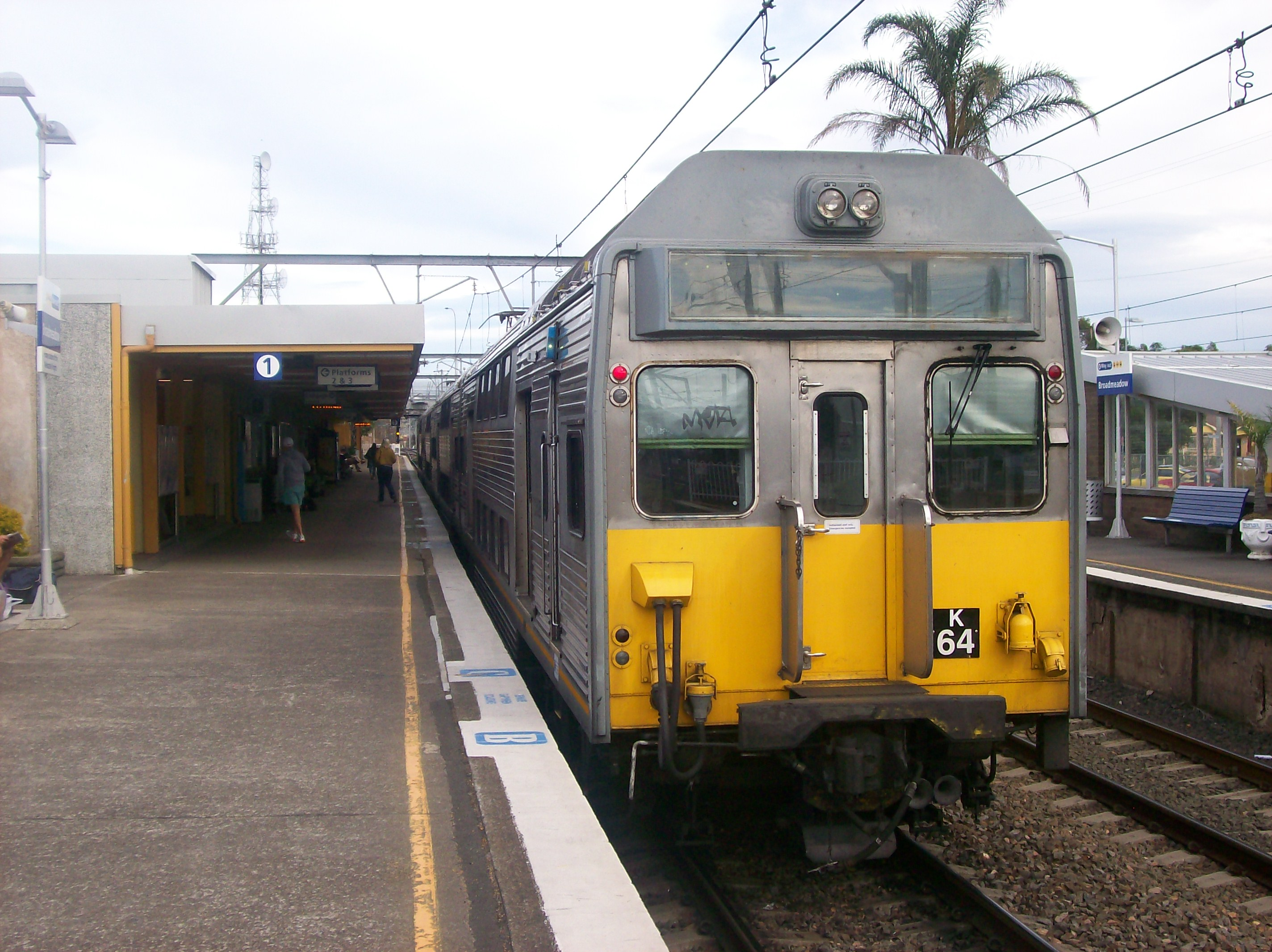 K64 Set at Broadmeadow railway station